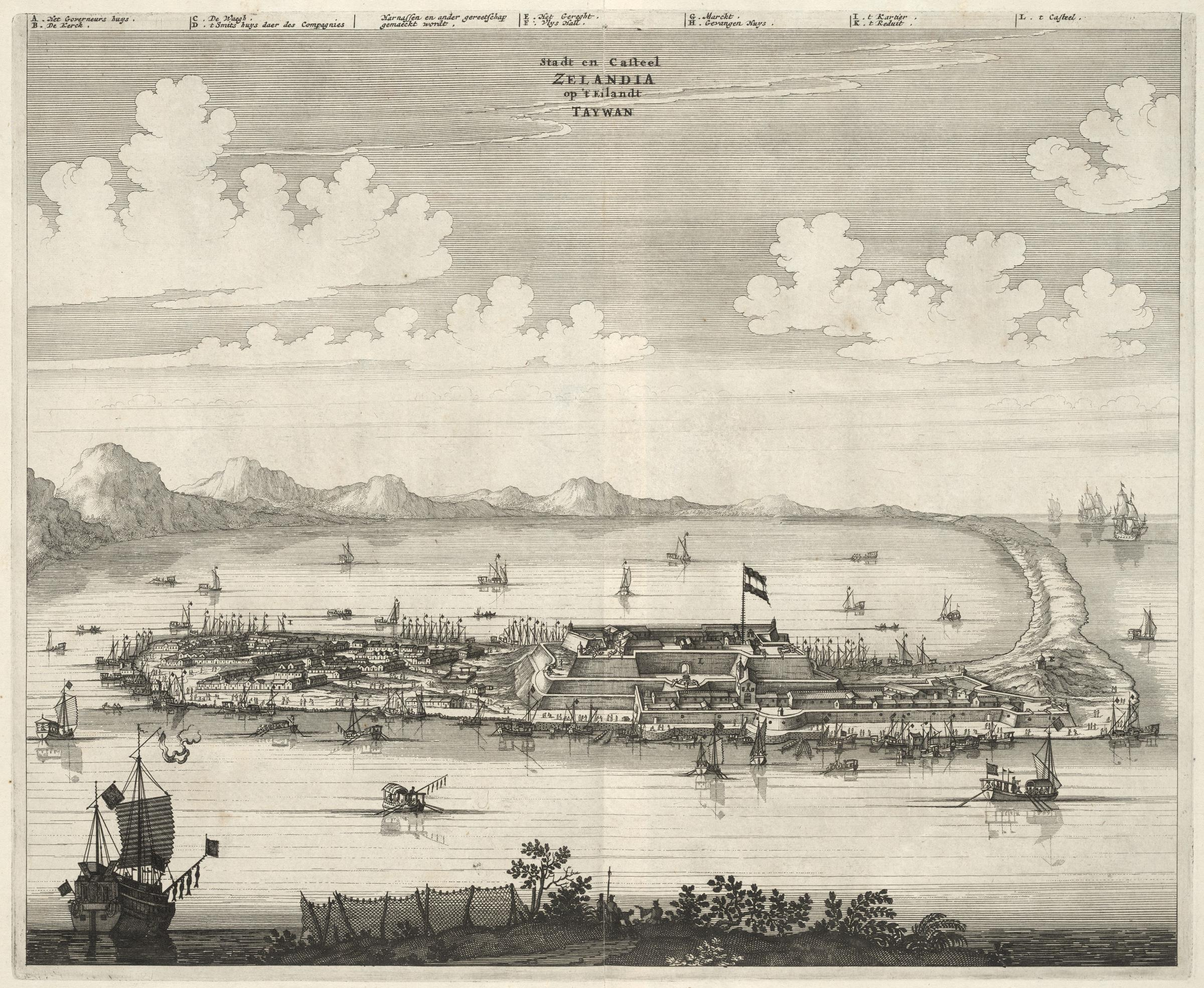 View of city and Fort Zeelandia on Taiwan.- Stadt en Casteel Zelandia op 't Eiland Taywan. Key: A. Het Governeurs huys. / B. De Kerck. / C. De Waegh. / D. t Smits huys daer des Compagnies Harnassen en ander gereetschap gemaeckt wordt. / E. Het Gereght. F. Vlys Hall. / G. Marckt. / H. Gevangen Huys. / I. t Kartier. / K t Reduit. / L. t Casteel. Various Chinese junks are shown moored or sailing in the harbour, on the right hand side the East Indiamen are depicted. Pieter van Hoorn undertook his voyage to the Chinese Imperial Court in 1662-1663. Dr Olfert Dapper (1636-1689) published a large number of books after 1663. He wrote a history of the city of Amsterdam and furnished the first Dutch translation of Herodotus. But he is known particularly for his many descriptions of foreign lands which he compiled from various sources, without ever seeing the countries he wrote about for himself. This view of Zeelandia is taken from a description of Imperial China. The publisher of this volume, Jacob van Meurs, was also an engraver. However it is not certain whether he was the engraver of these prints.